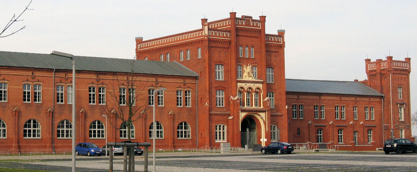 Alte Artelleriekaserne (Old Artillery Barrack) in Schwerin, Mecklenburg-Vorpommern, Germany